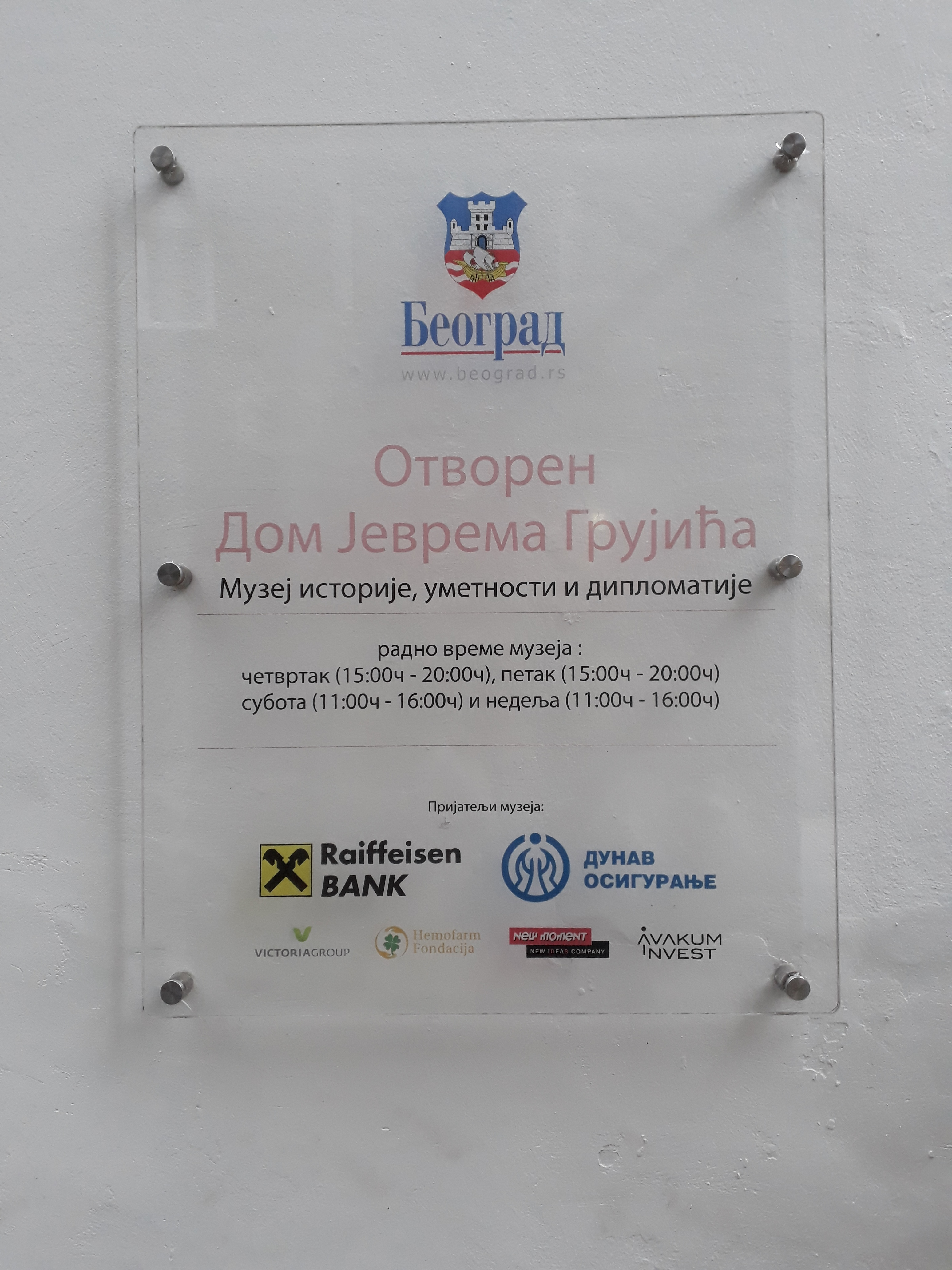 Street Svetogorska in Belgrade, Serbia, label of house of Jevrem Grujic